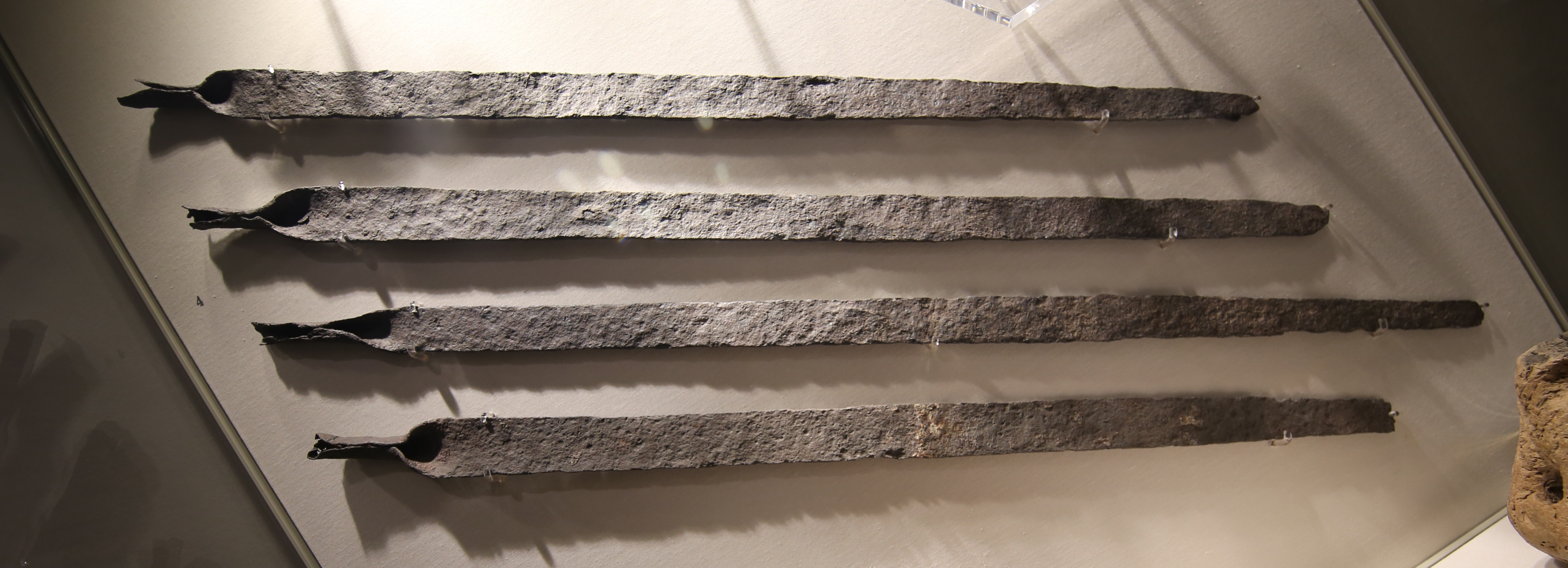 Photo of 4 pieces of sword type British iron age iron bar currency